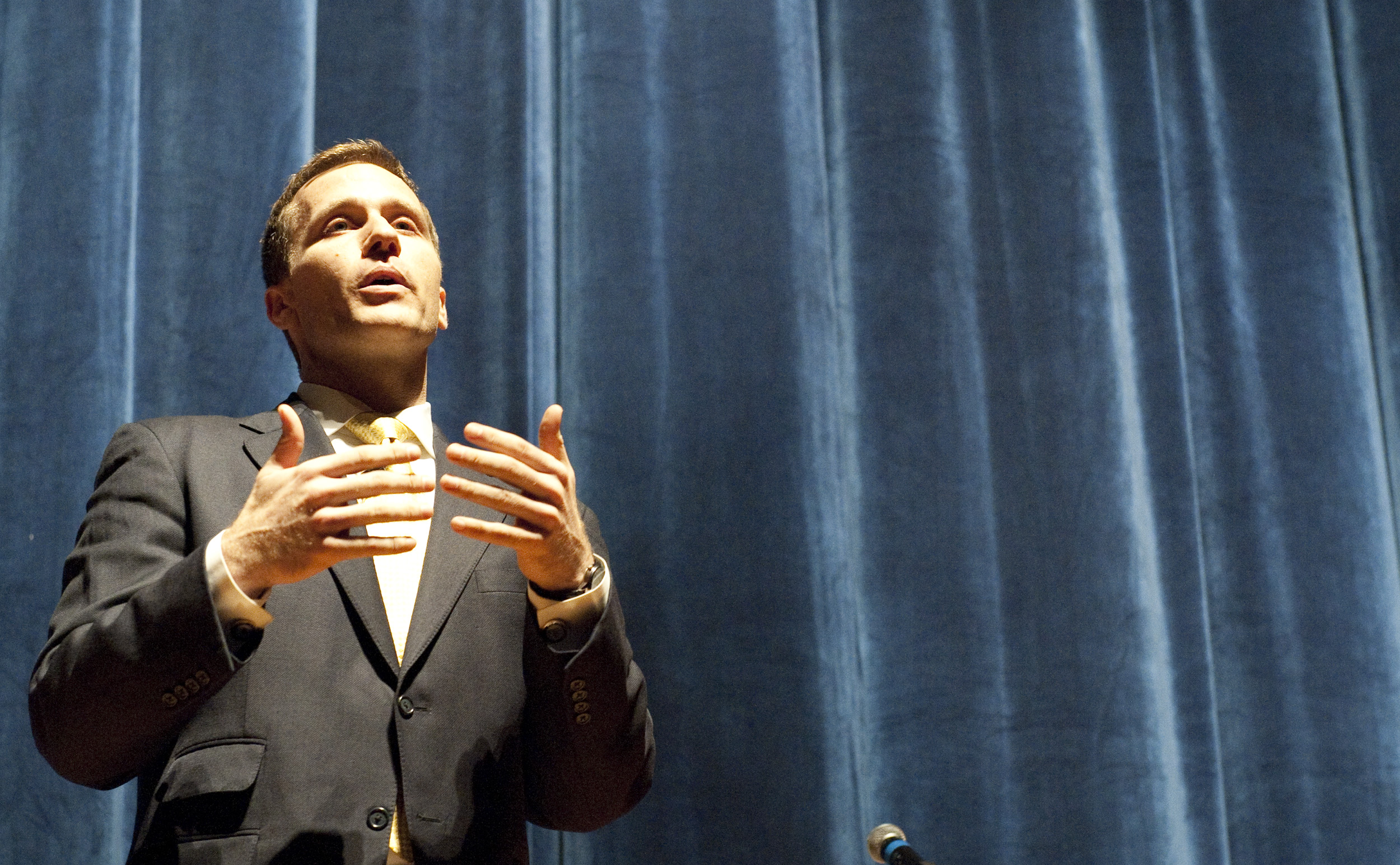 Eric Greitens, an author, photographer and former Navy SEAL, speaks to the corps of cadets at the 22nd Annual Ethics Forum Friday, March 25, 2011, in Leamy Auditorium at the U.S. Coast Guard Academy in New London, Conn. The Ethics Forum is an event where distinguished speakers come to the Academy and host discussions and lectures on various subjects regarding ethics, and ethical dilemmas in order to further develop leaders of character. U.S. Coast Guard photo by Petty Officer 2nd Class Timothy Tamargo